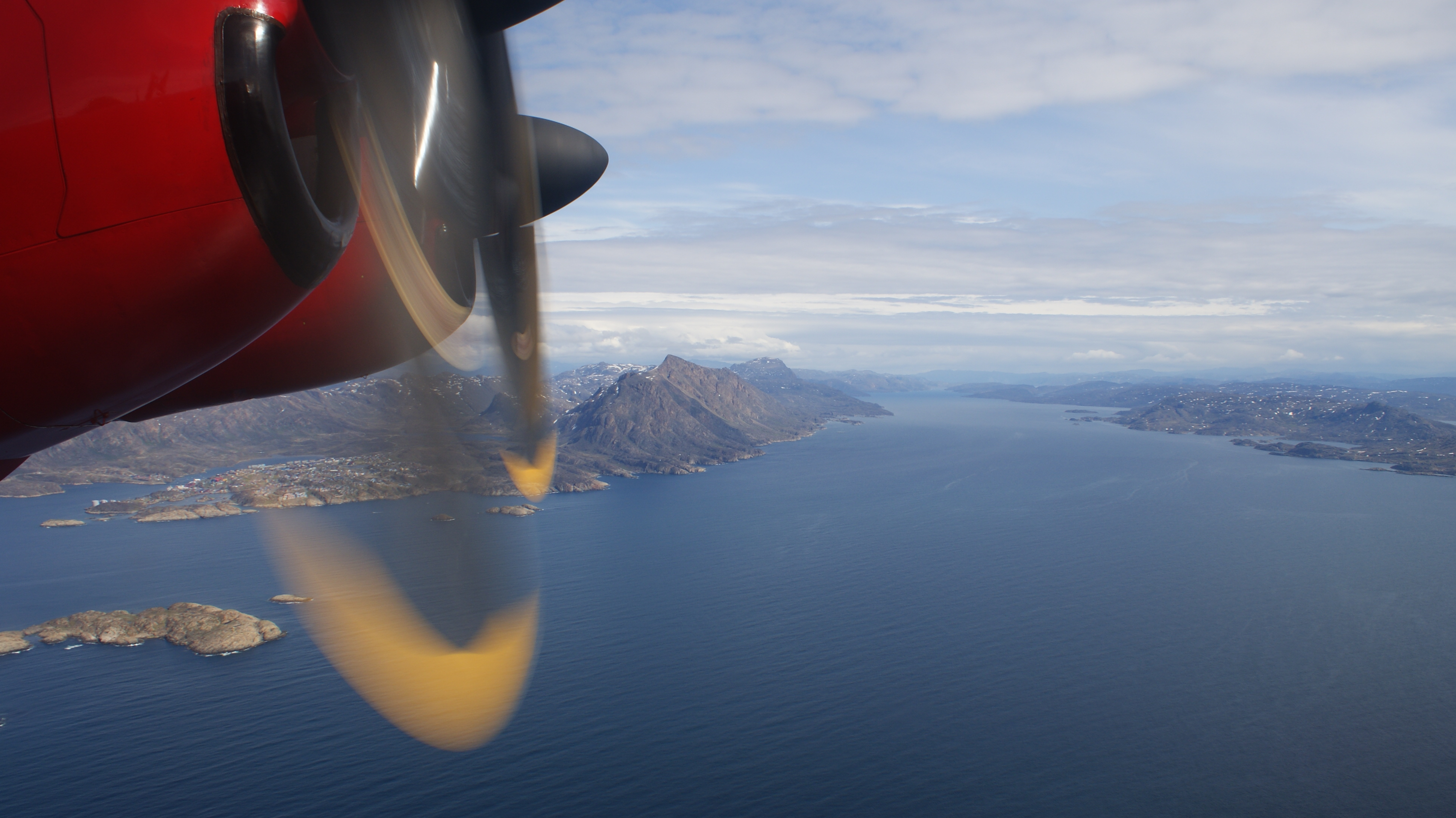 Aerial view of Amerloq Fjord, Nasaasaaq mountain (784m), and Sarfannguit Nunataat, western Greenland. Photographed from the Air Greenland de Havilland Canada Dash-7 "Sululik" during the Sisimiut-Nuuk flight.